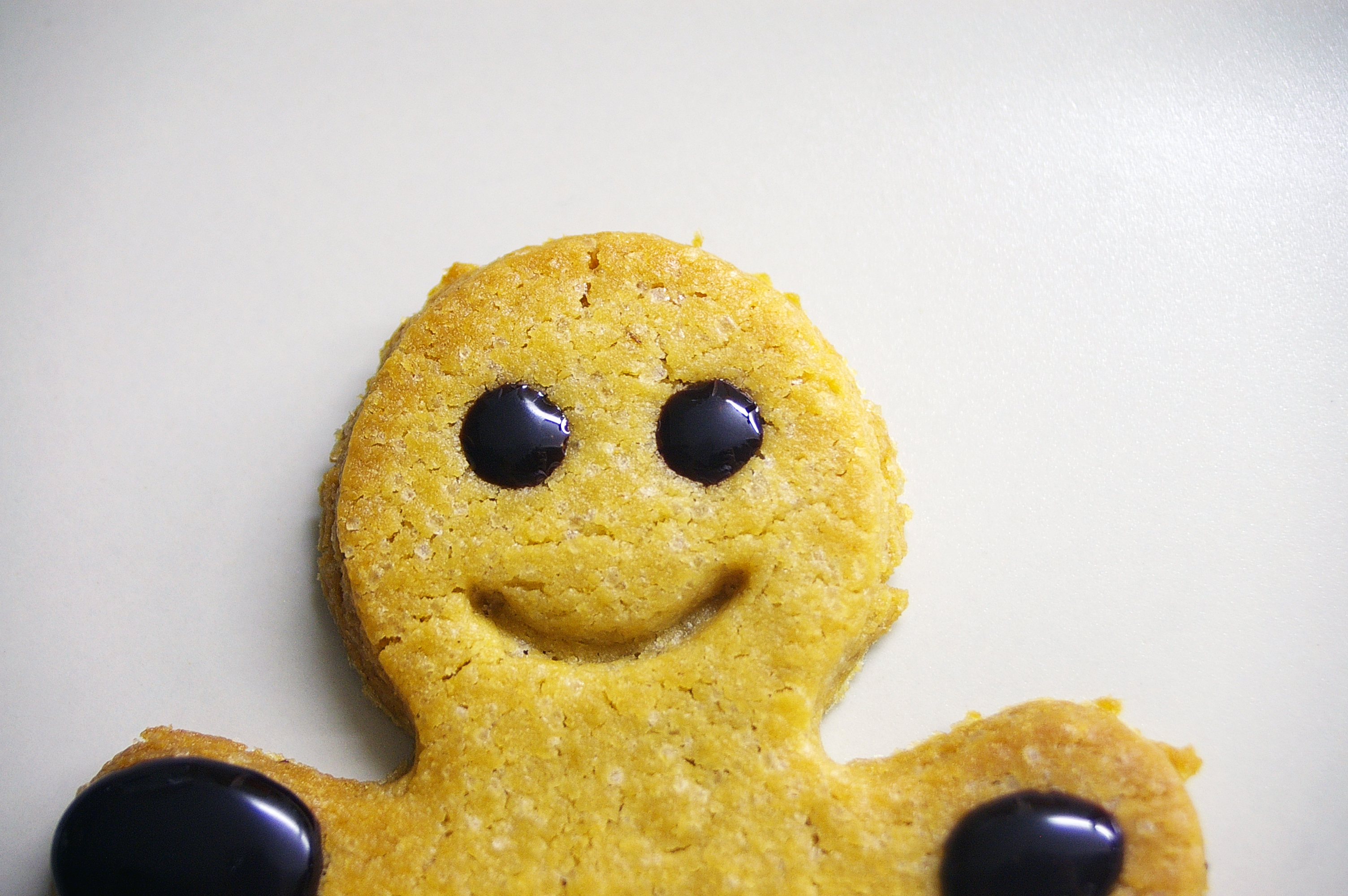 Shortcrust pastry cookie, Cuinant somriures amb gingebre